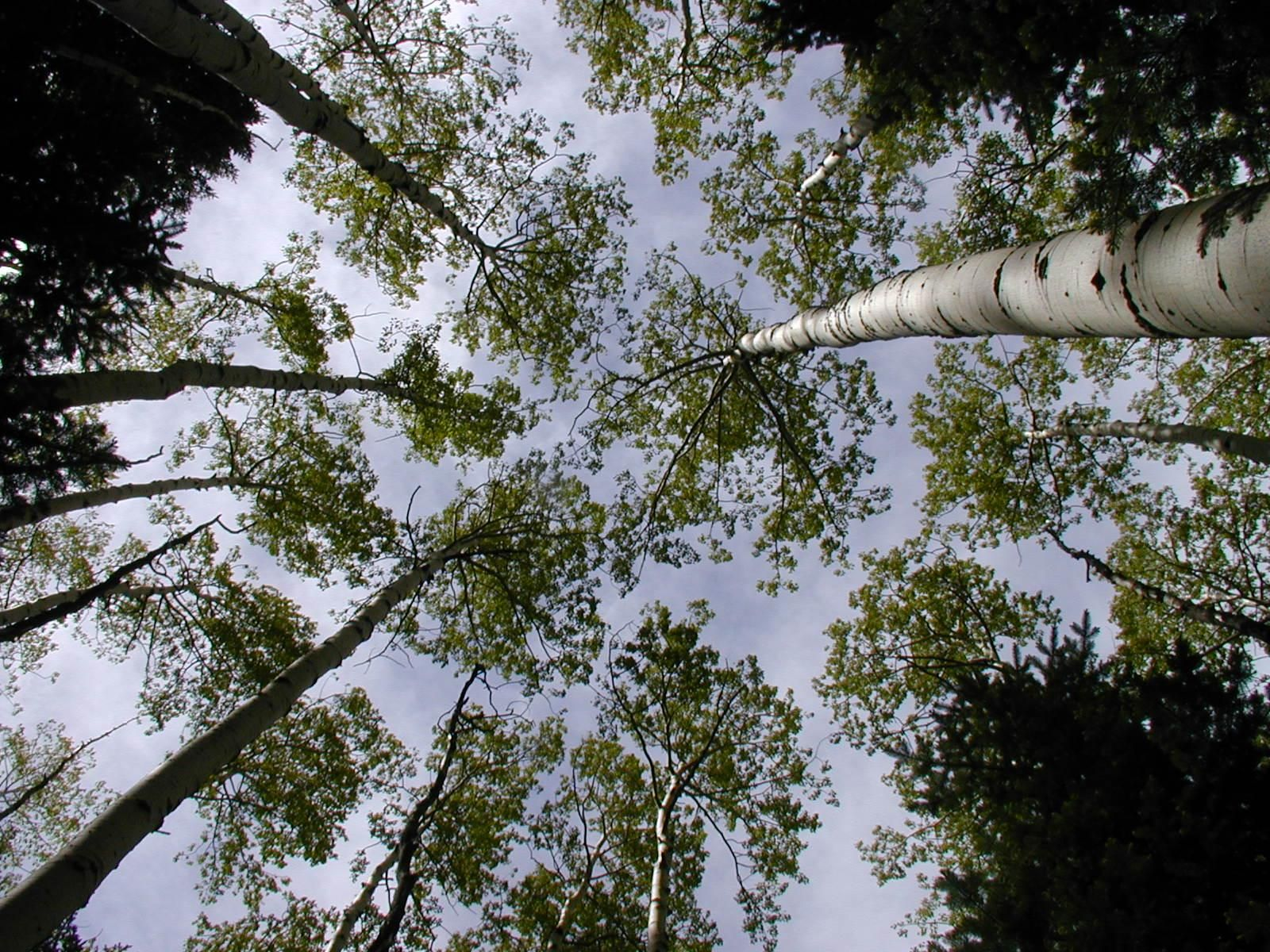 Image title: An aspen canopy located on the slope of the San Fransisco peaks Image from Public domain images website